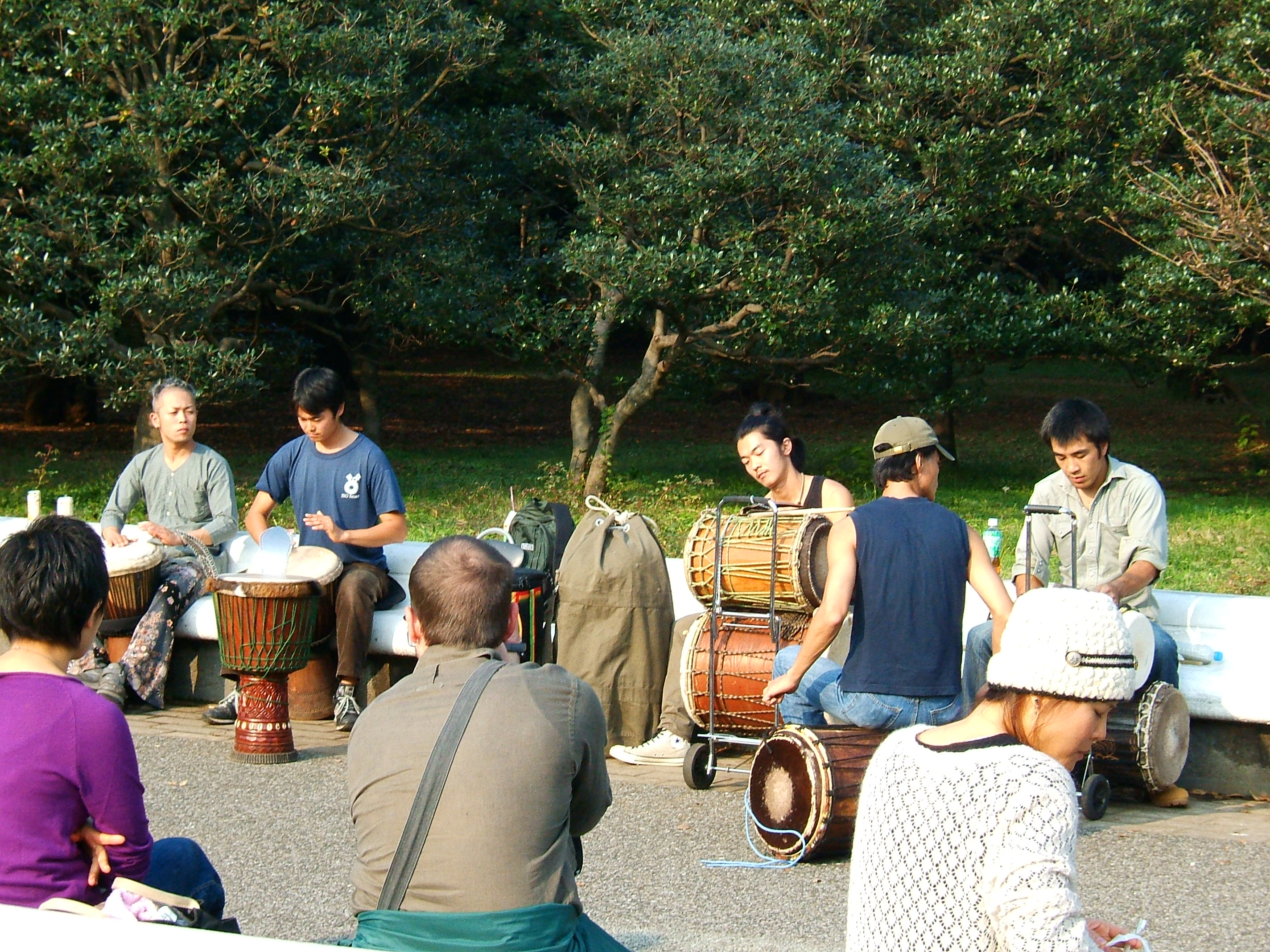 Musicians at Yoyogi park